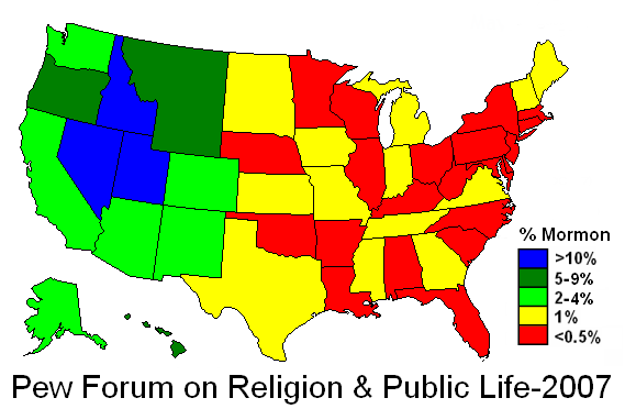 This map shows the percentage of the U.S. adult population that affiliates themselves as Mormon in a survey by the Pew Forum on Religion & Public Life in 2007.[1]